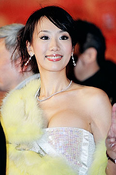 Joelle Lu